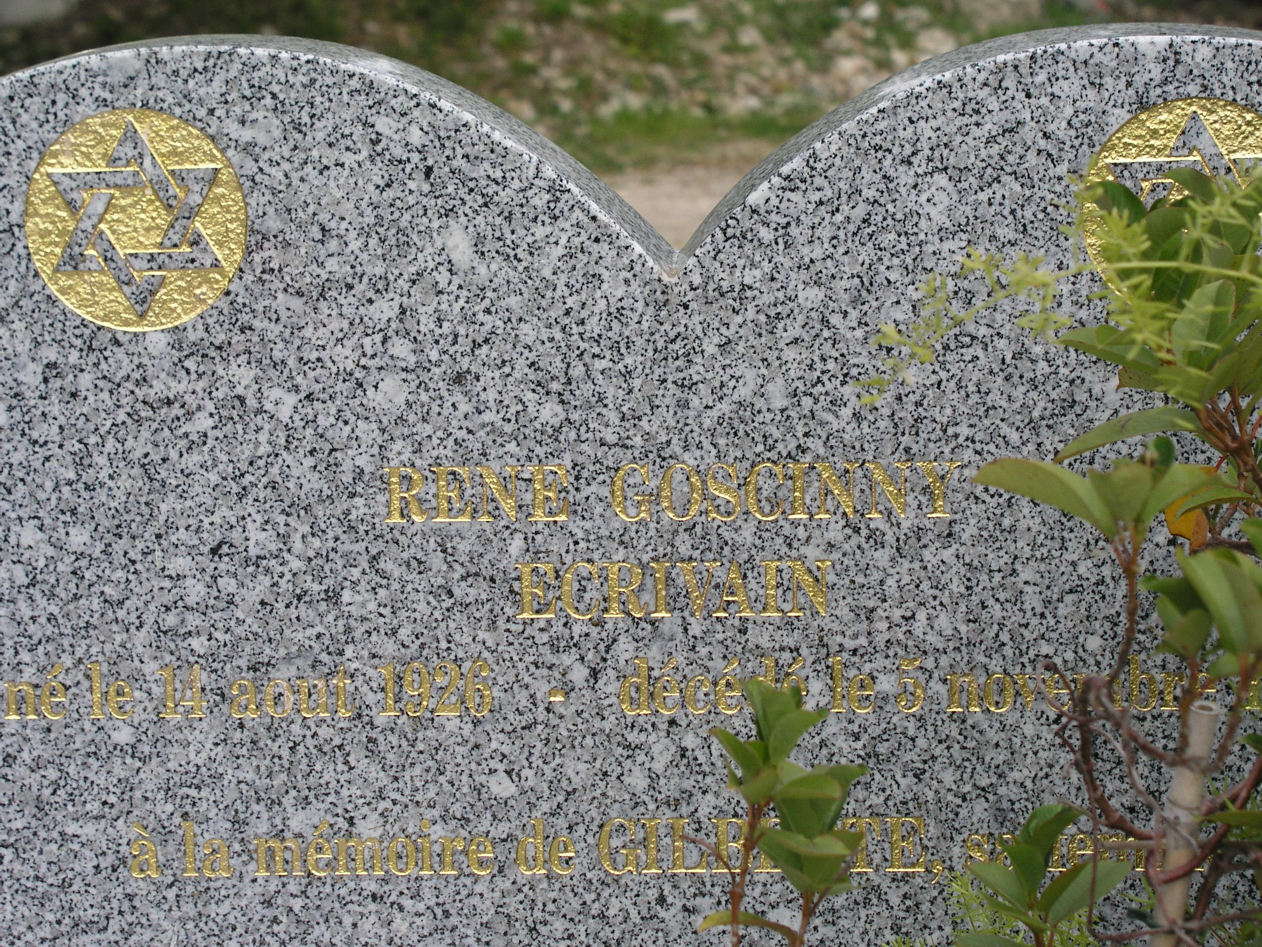 René Goscinny at Nice